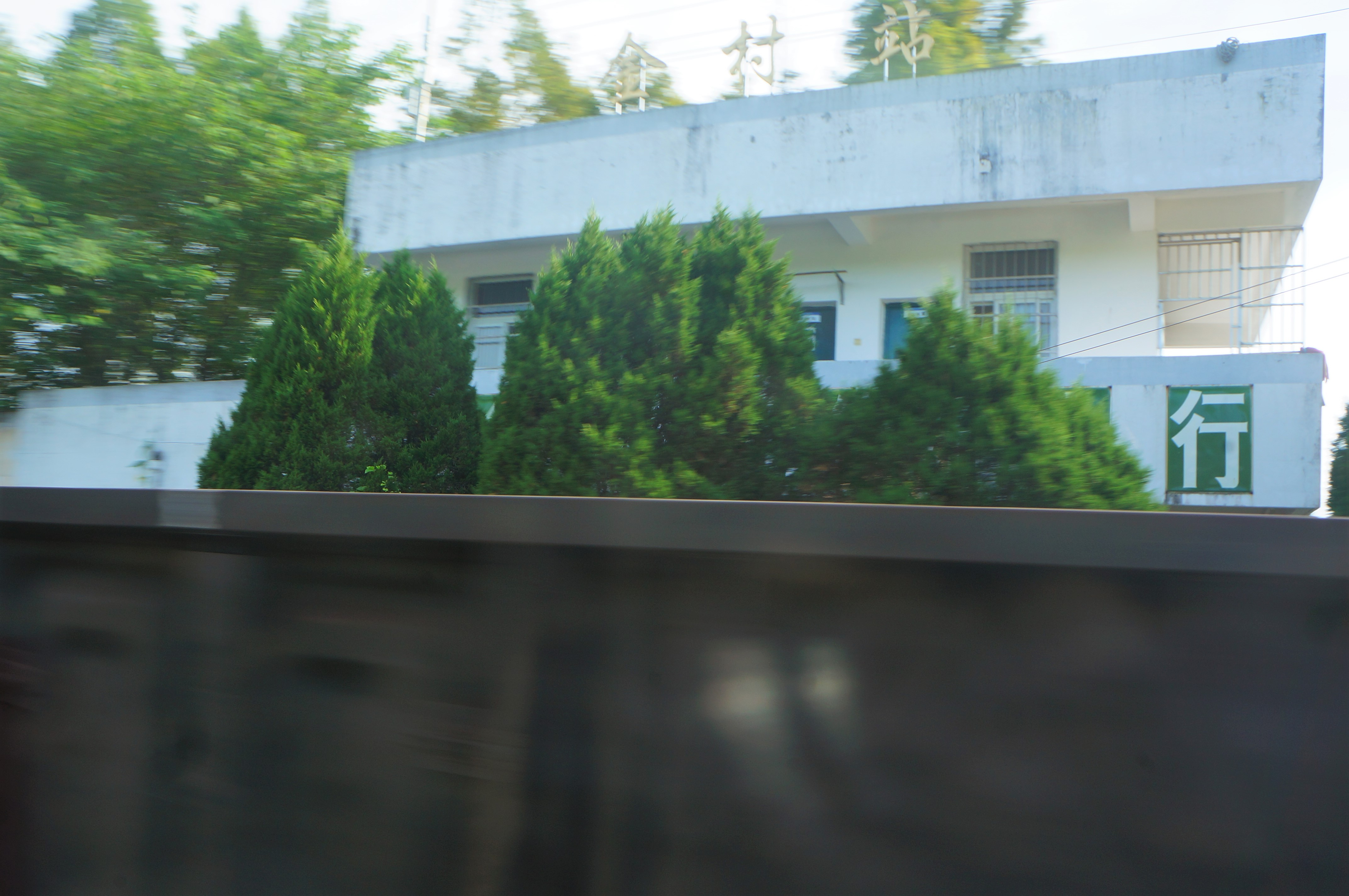 201806 Conductor of Jincun Station